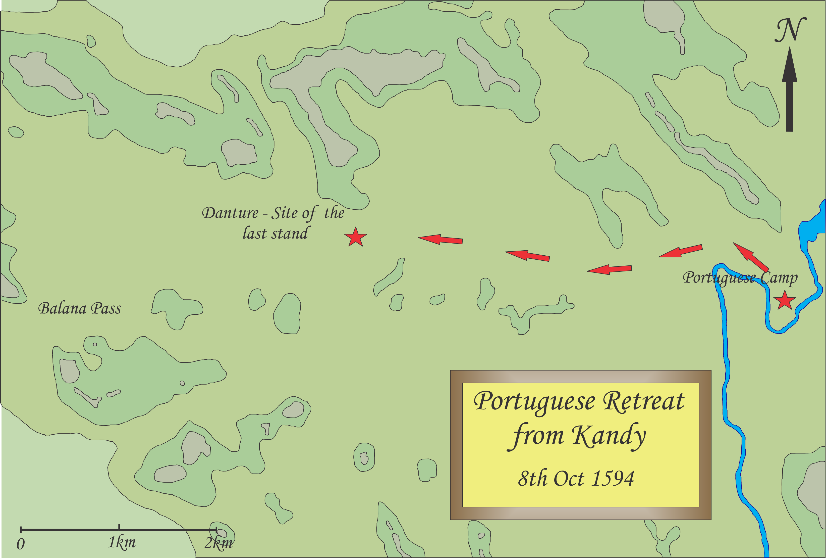 Portuguese retreat from Kandy and the last stand at Danture (8th October 1594). Map based on details from: -Fernao de Queyroz. The temporal and spiritual conquest of Ceylon. AES reprint. New Delhi: Asian Educational Services; 1992. p 486-490 ISBN 81-206-0764-3